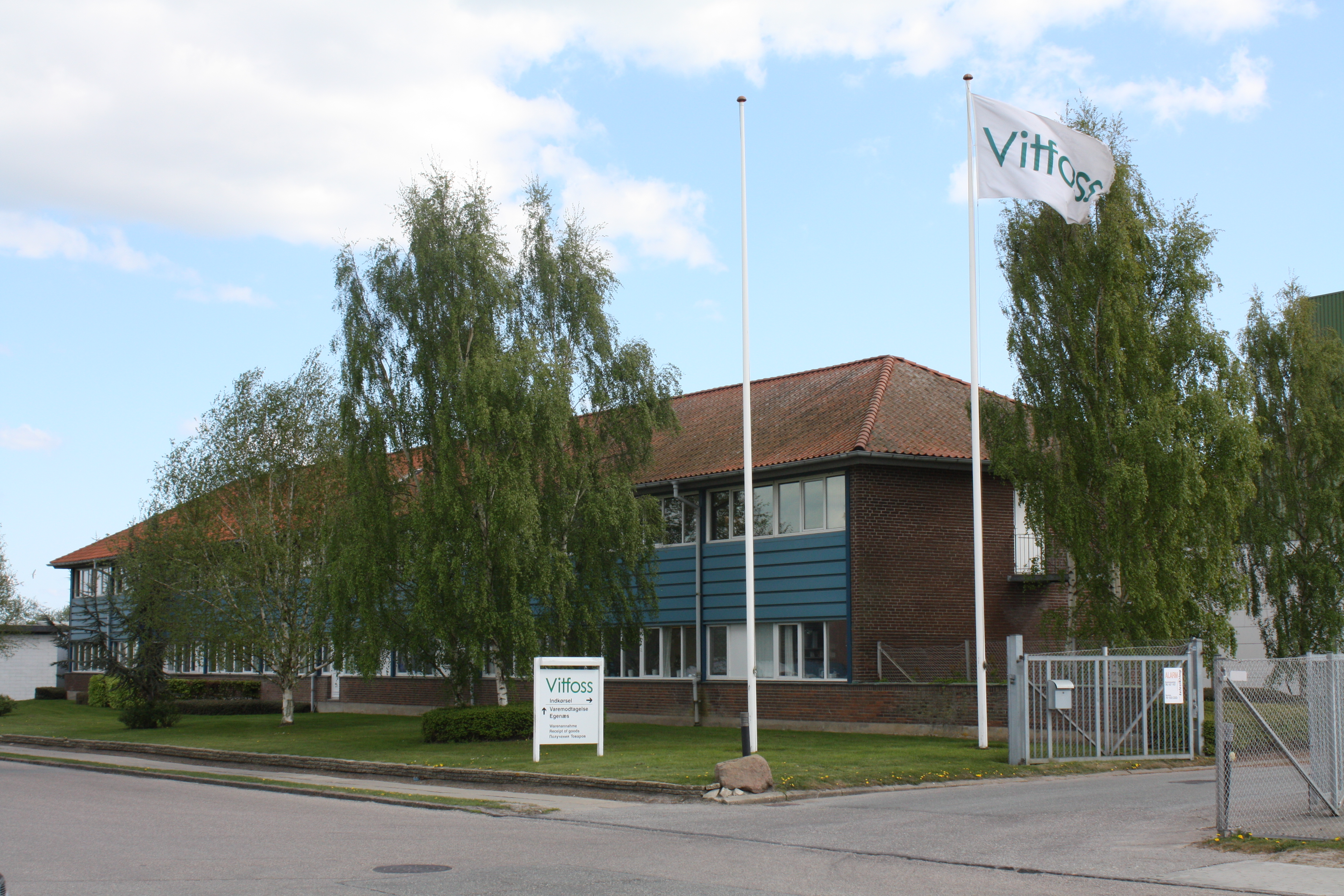 The main Vitfoss building